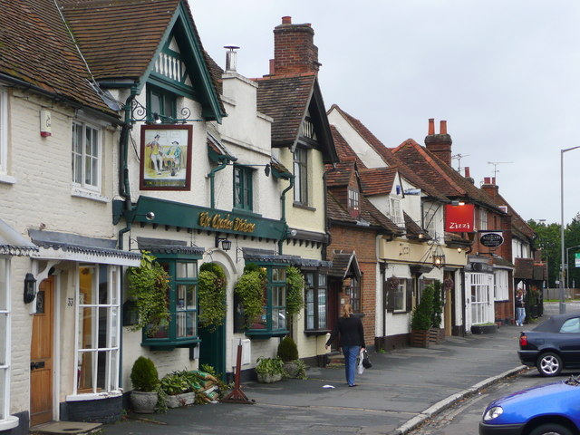 Aylesbury End, Beaconsfield Up-market town has restaurants in abundance. Here are The Charles Dickens, Zizzi, and Basmati.